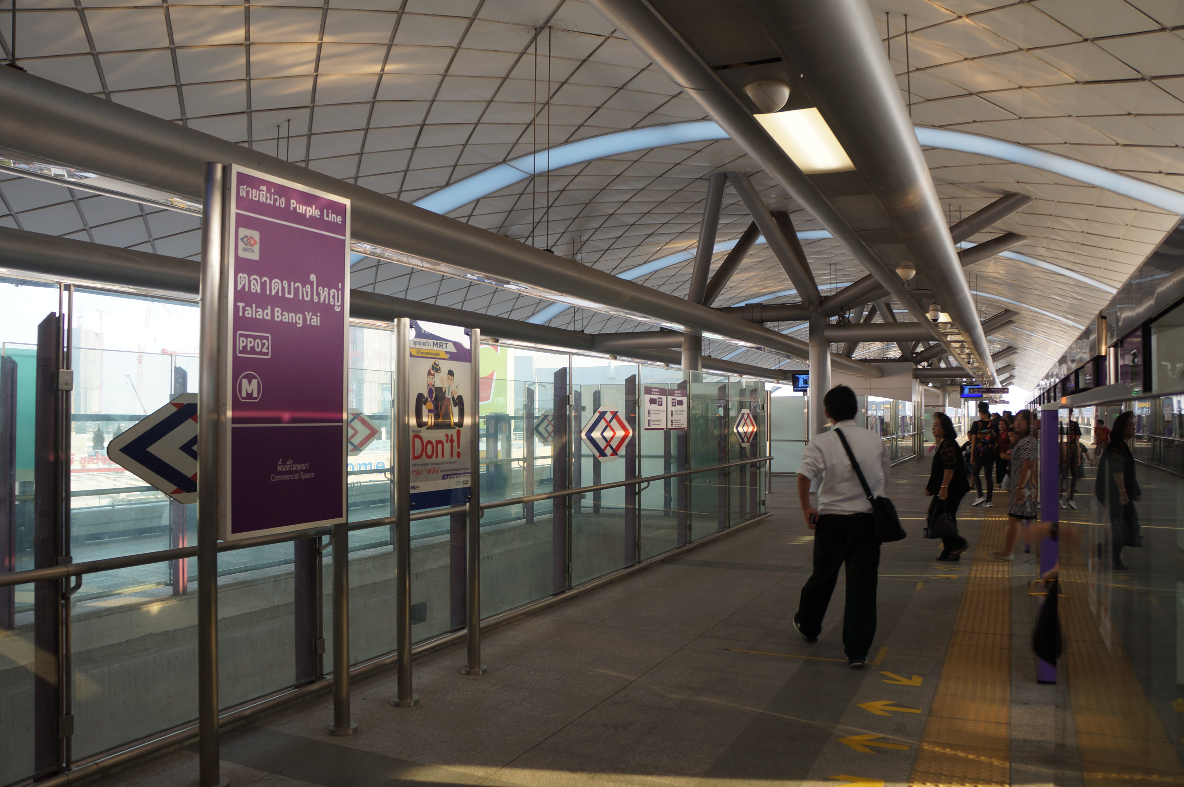 201701 Talad Bang Yai Station. What is the meaning of Bang Yai?